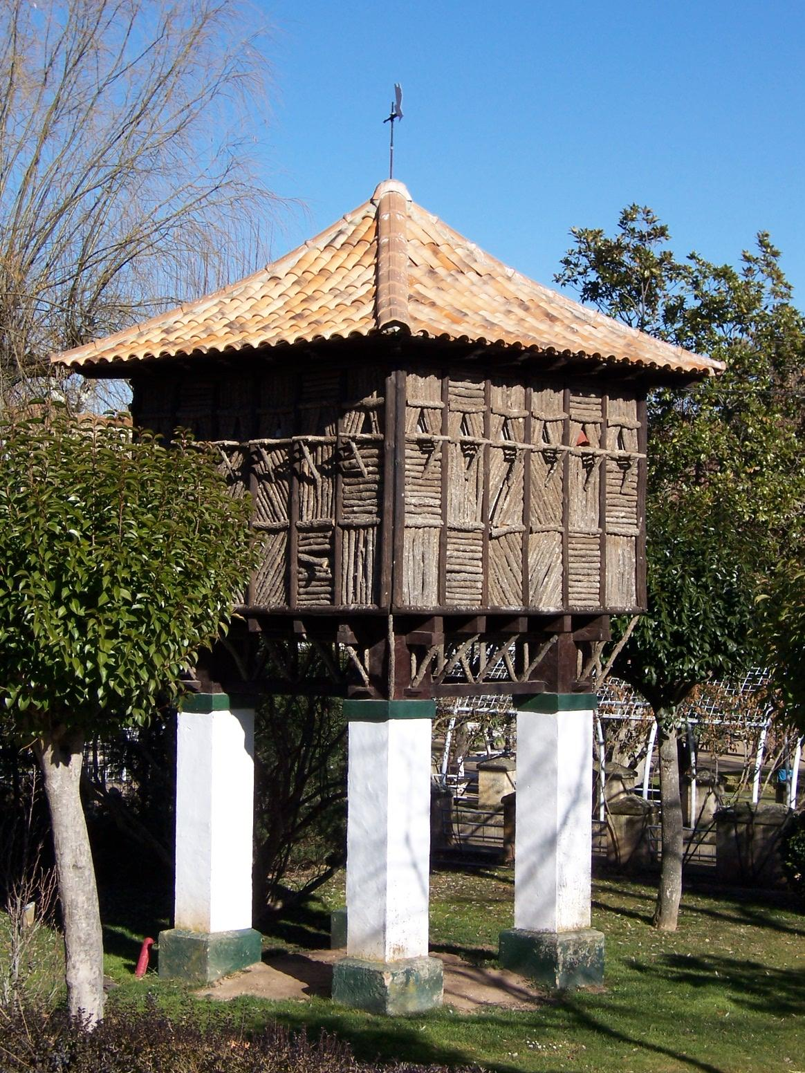 dovecote in Alameda de Cervantes Park in Soria (Castile-Leon, Spain)